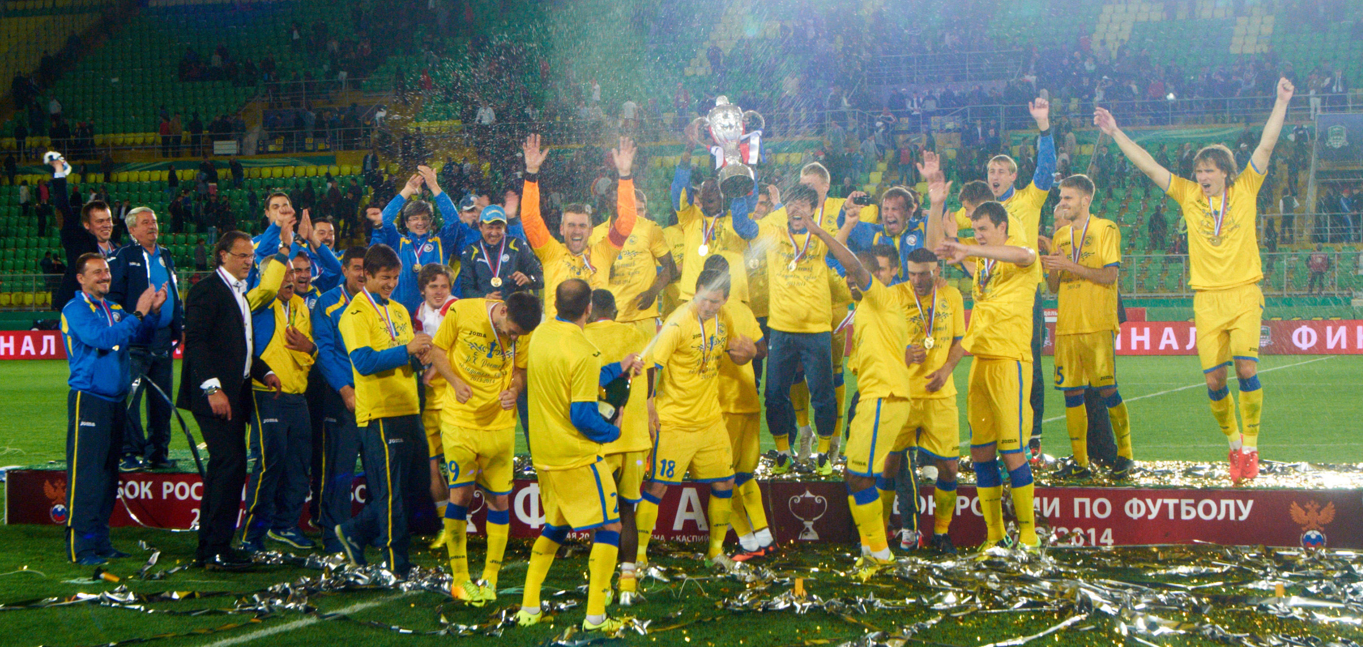 FC Rostov, after winning the final match of the Russian Cup 2013/14. The stadium Anzhi Arena in Kaspiysk.